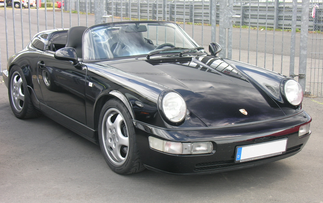 Porsche 964 Speedster. Photo taken on Nürburgring.